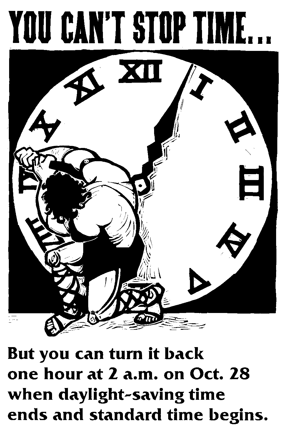 Text: "You can't stop time... but you can turn it back one hour at 2 a.m. Oct. 28 when daylight-saving time ends and standard time begins."